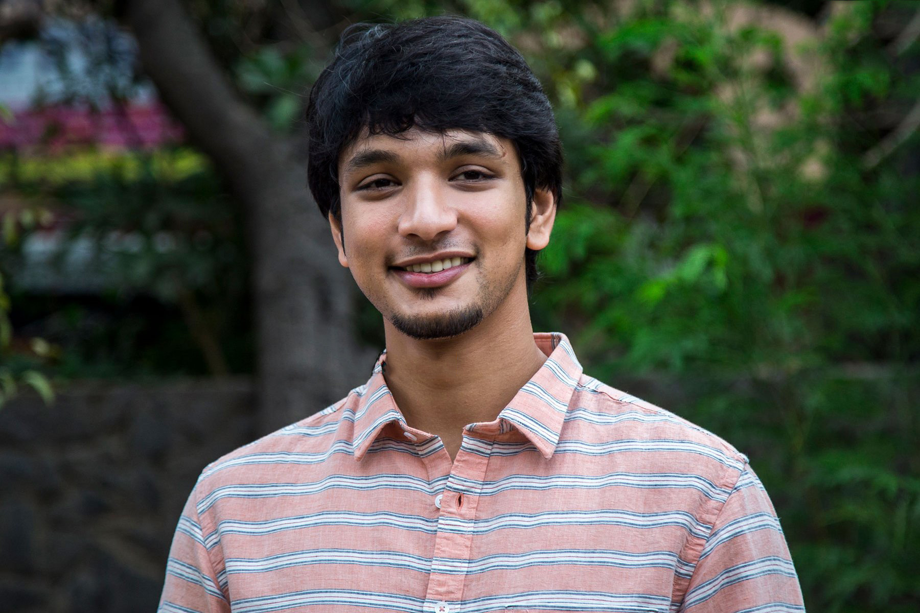 Gautham Karthik at Rangoon Audio Launch